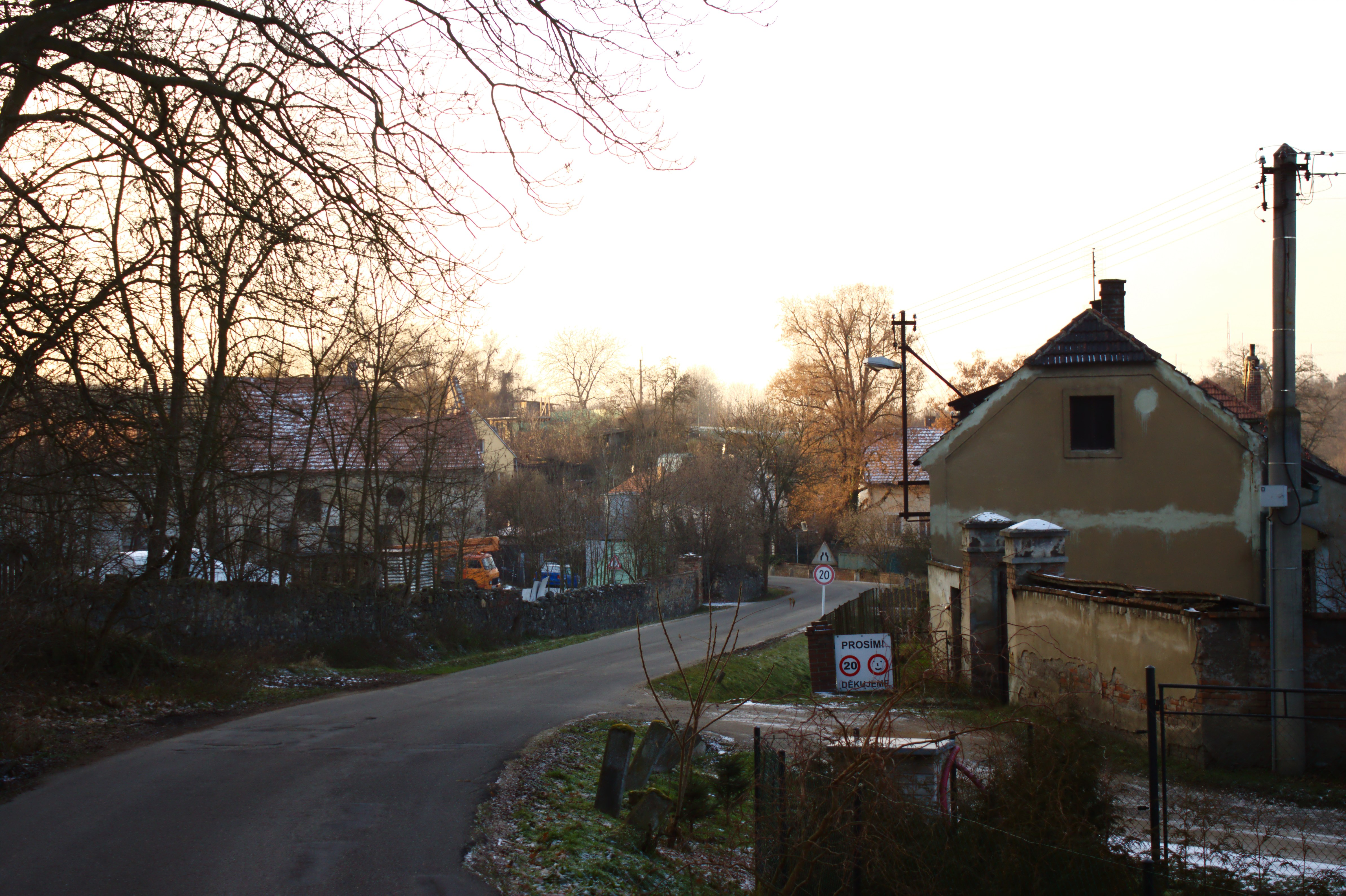 Typical czech village houses in Debrno, Central Bohemian Region, CZ